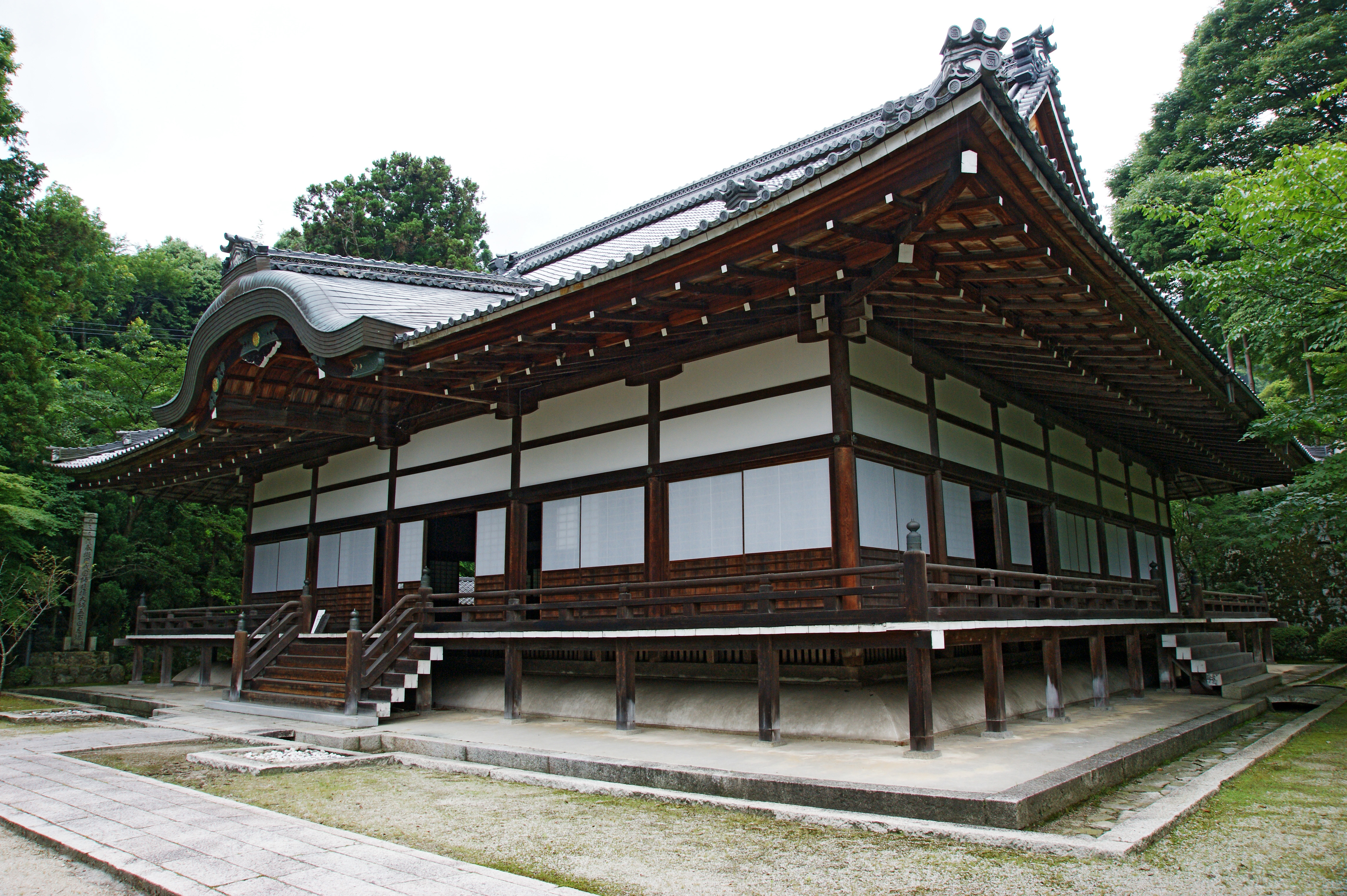 Saikyoji in Sakamoto, Otsu, Shiga prefecture, Japan